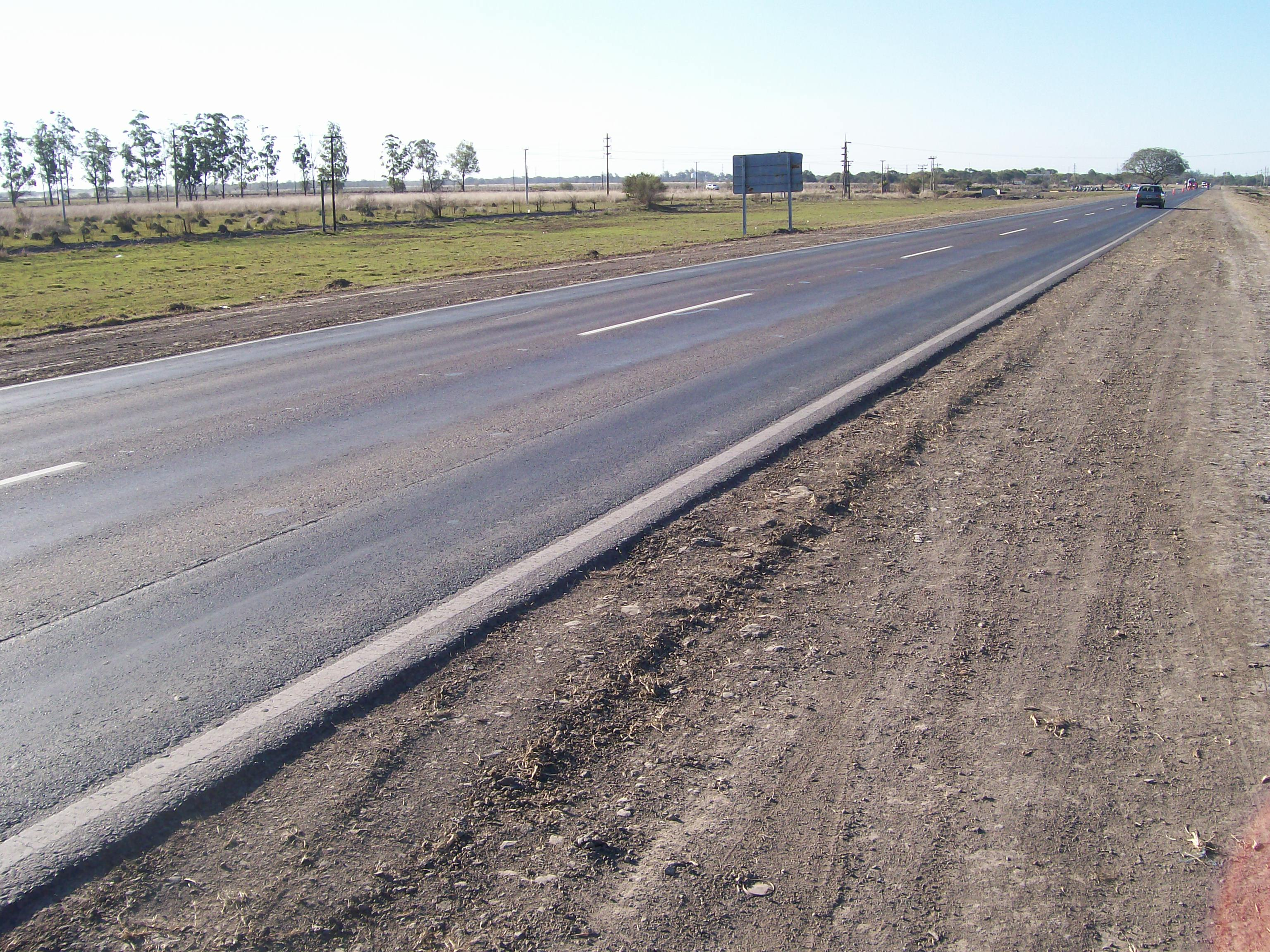 National Rute 11 (Argentina) near Yaco Guarnieri race circuit in Resistencia, Chaco, Argentina.